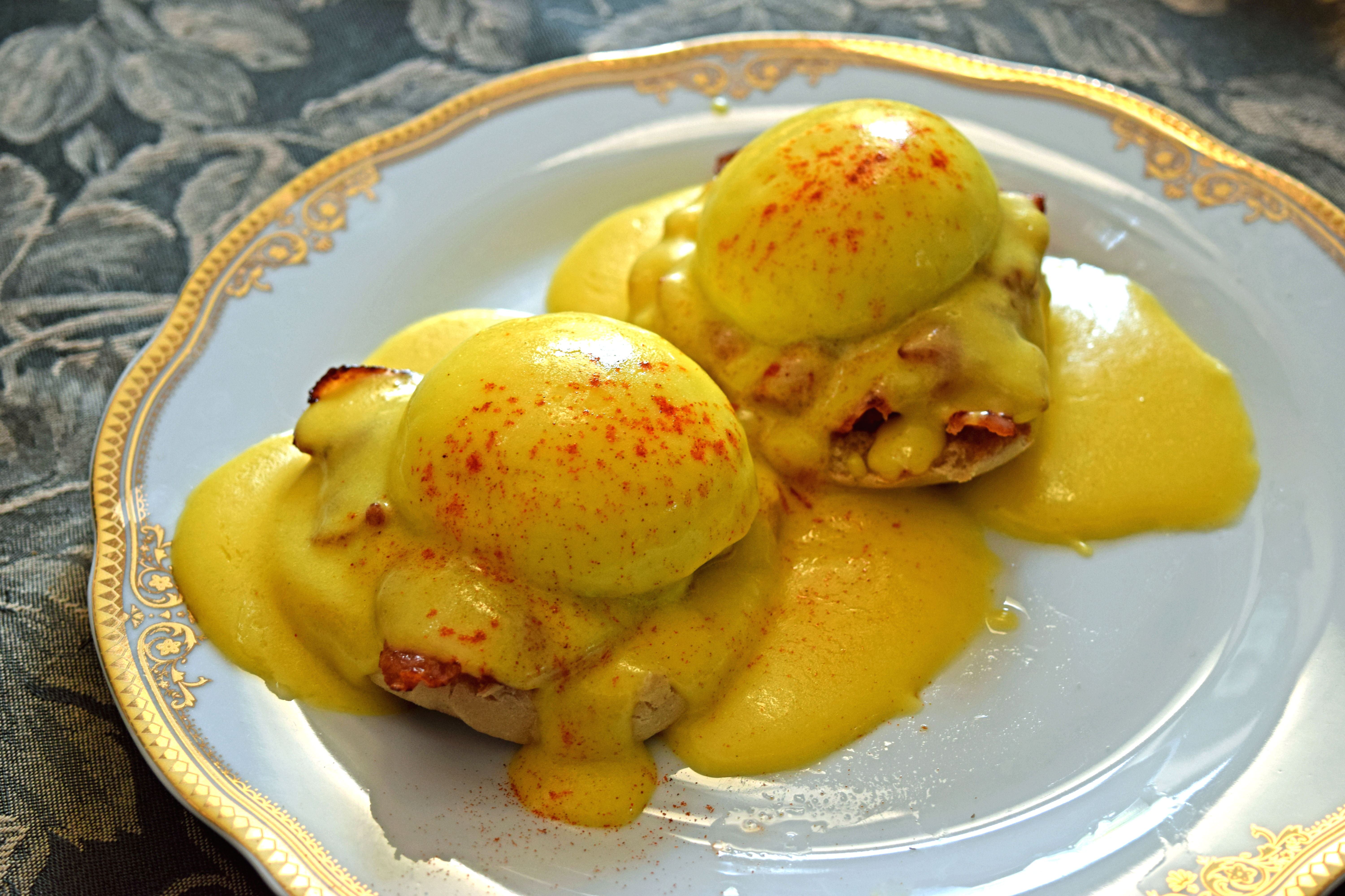 Hollandaise sauce as part of Eggs Benedict with bacon, sprinkled with paprika